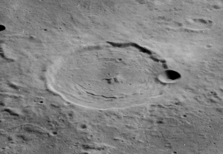 Oblique view of Taruntius, on the moon, facing southwest. Contrast and brightness adjusted from original.